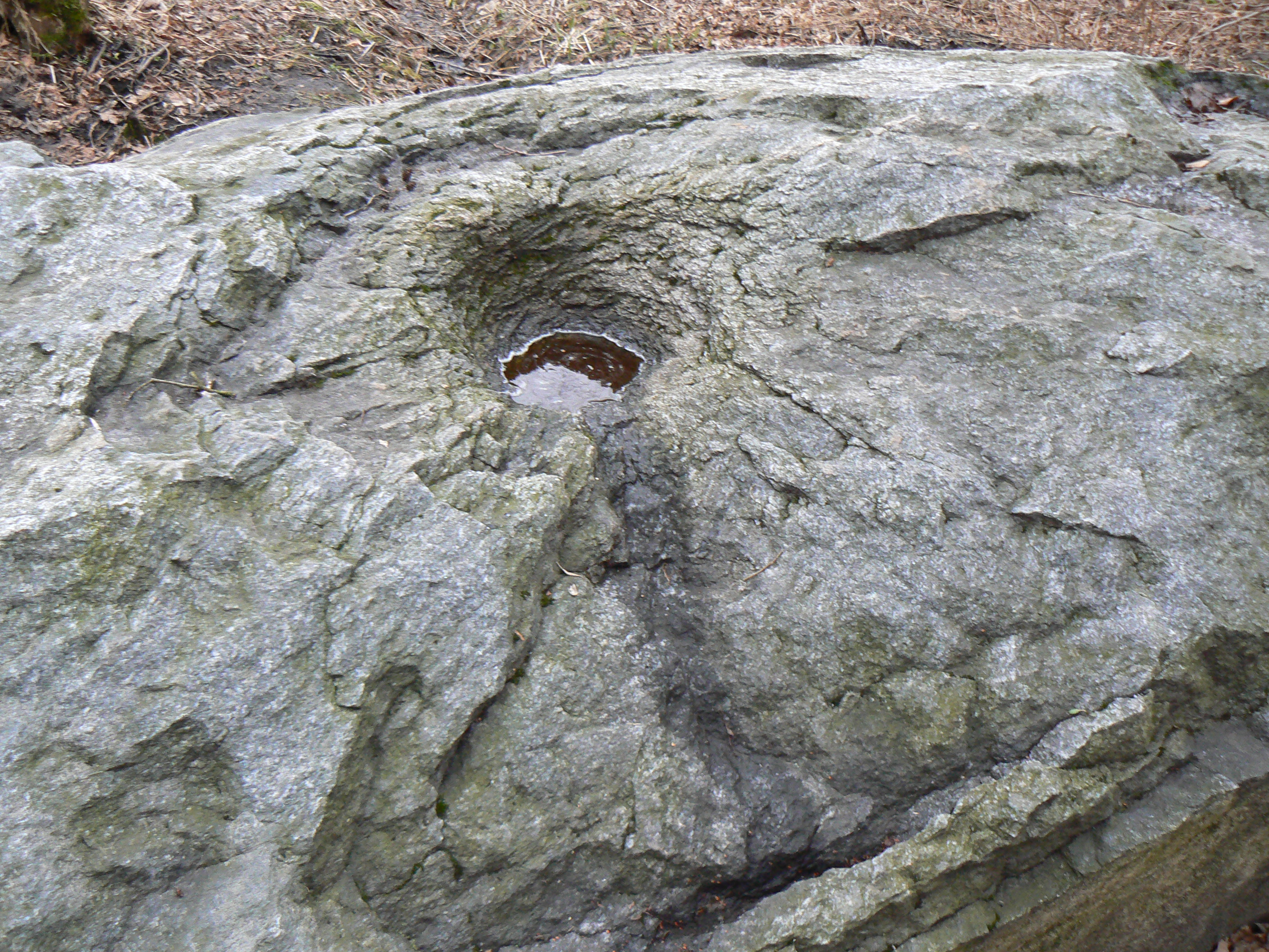 Devil's boulder in Tauralaukis, Lithuania